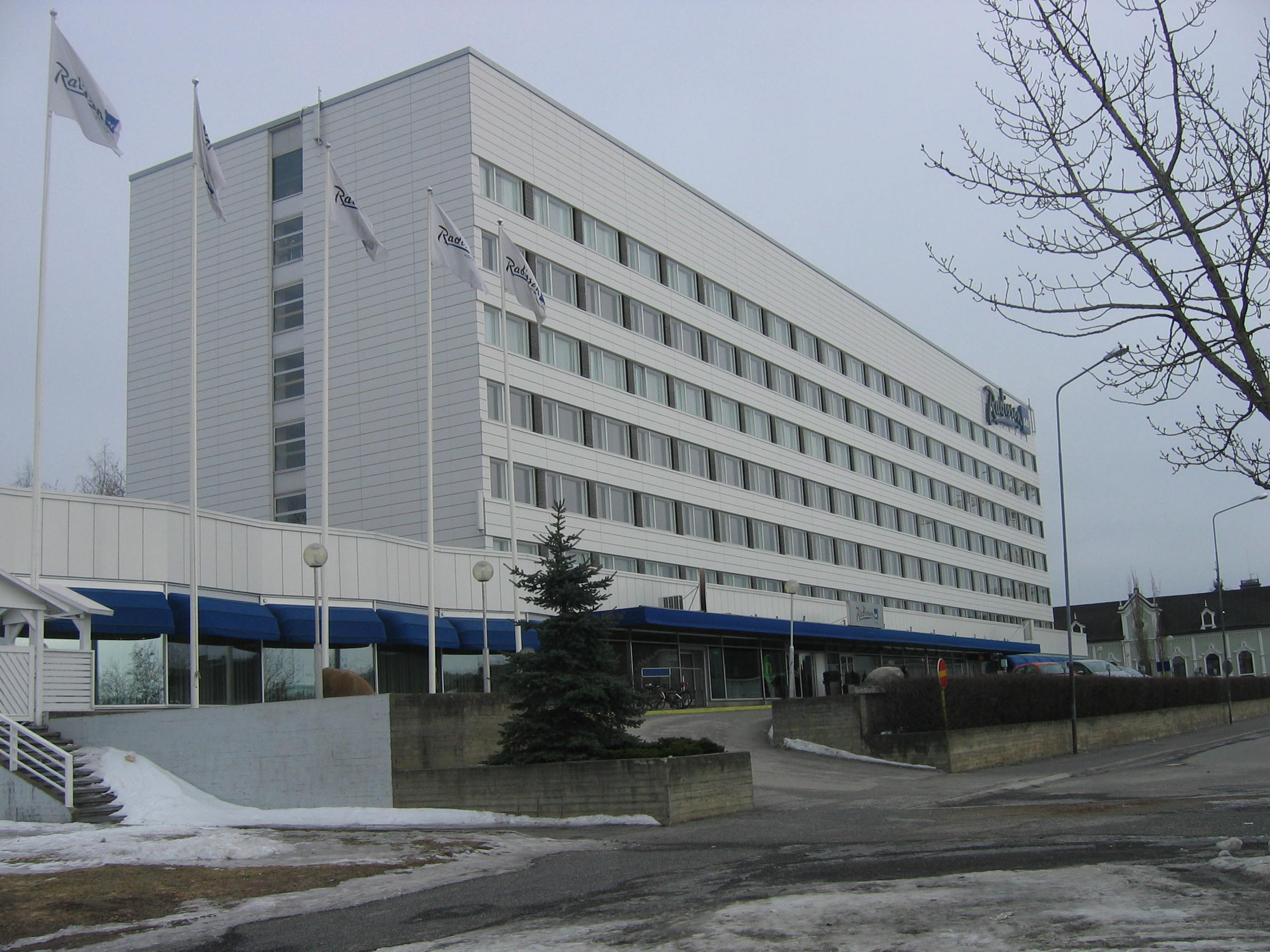 Radisson SAS Hotel in Oulu, Finland